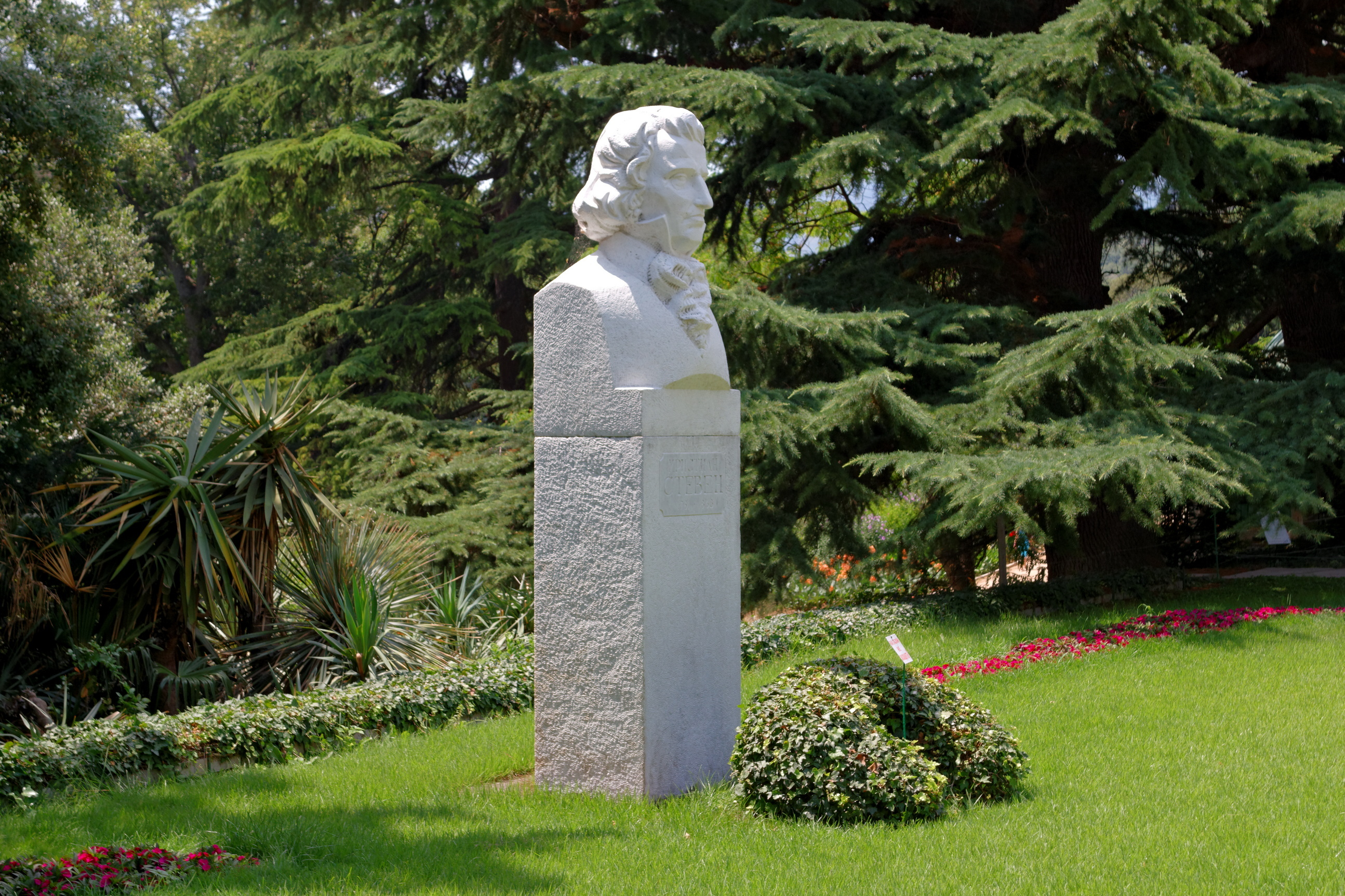 Nikitsky Botanical Garden. Monument to Christian von Steven